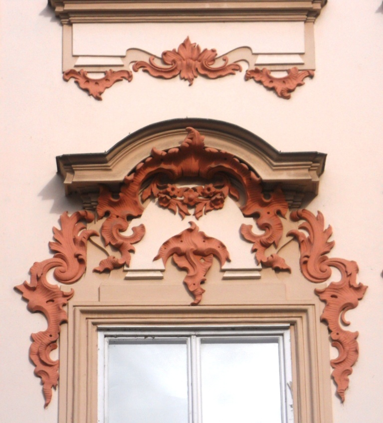 Rococco rocailles, 18th century (Kinsky palace, Prague)